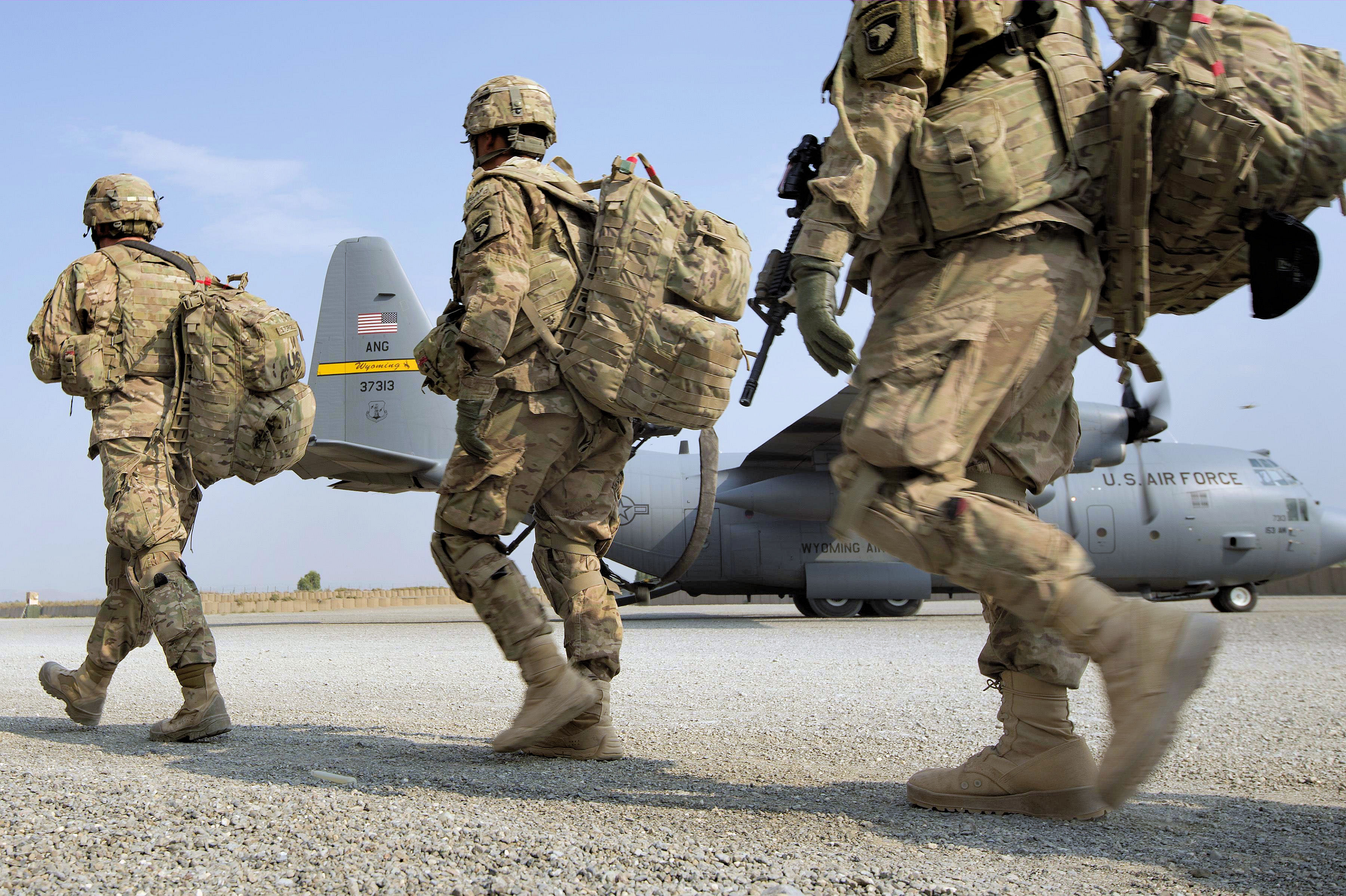 Army 101st Airborne Division Soldiers make their way to a 774th Expeditionary Airlift Squadron Lockheed C-130H Hercules 93-7313 cargo plane at Forward Operating Base Salerno, Khost province, Afghanistan, Sept. 23, 2013. The 19th Movement Control Team, a small squadron of Air Force surface movement controllers and aerial porters, have the herculean task of overseeing the vast majority of retrograde operations at FOB Salerno. The 774th Expeditionary Airlift Squadron consists of members of the Wyoming Air National Guard 187th Airlift Squadron